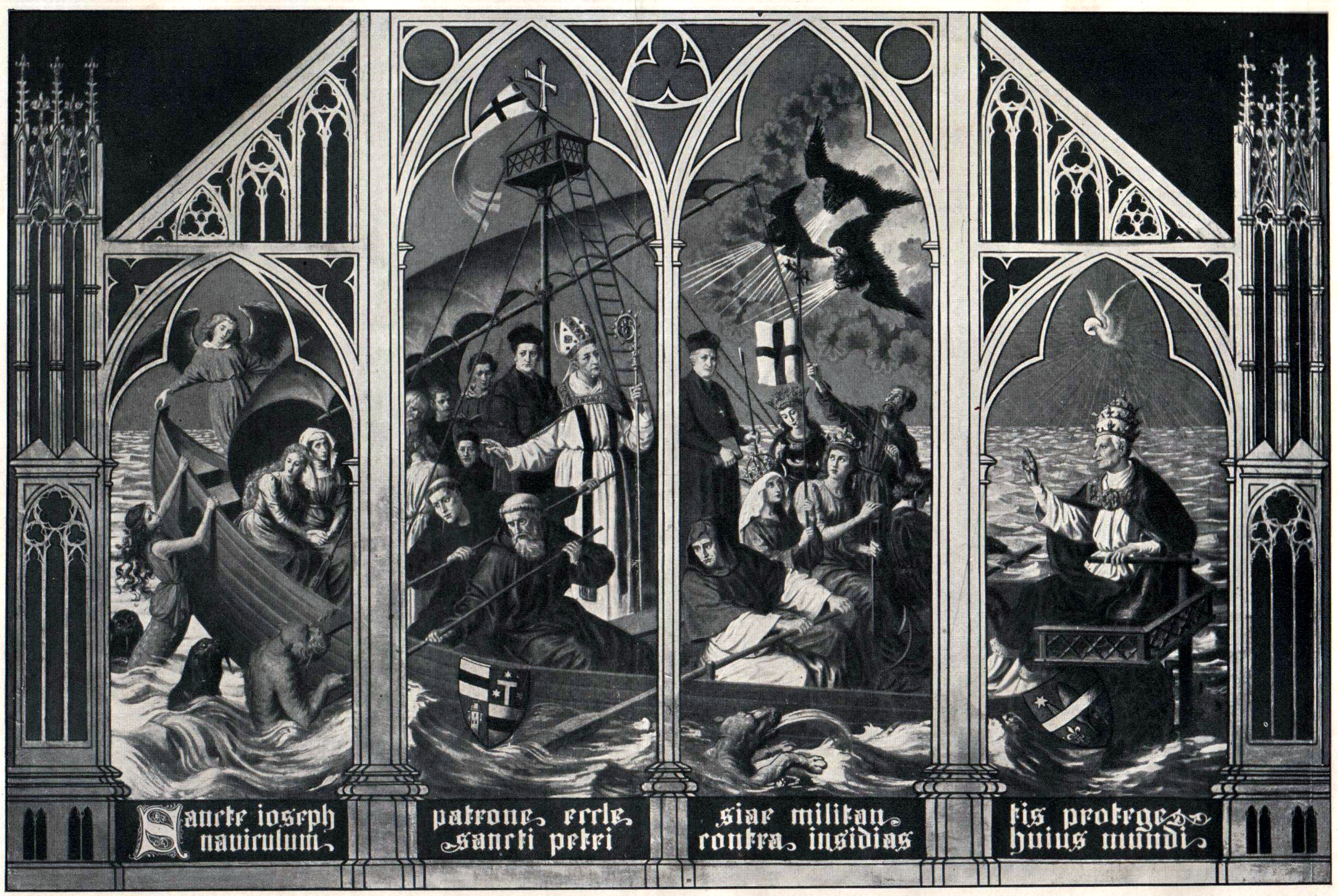 Pope Leo XIII guides the ship of God's Church. Painting in shrine Kevelaer from Friedrich Stummel